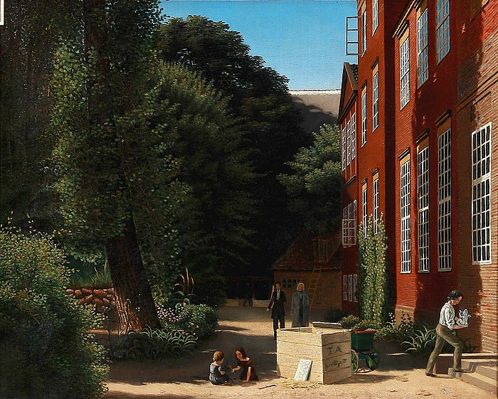 Botanisk Have med Thorvaldsen, painting atributed to Ferdinand Tichardt